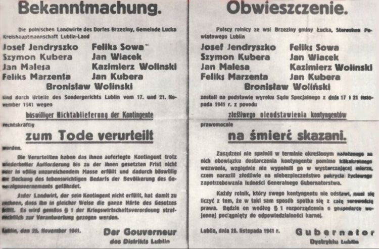 German annoucement General Government in occupied Poland, 1941.